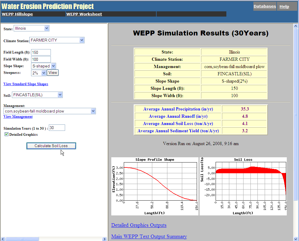 Screen capture of one of the WEPP (Water Erosion Prediction Project) web-based interfaces for simple hillslope profile simulations